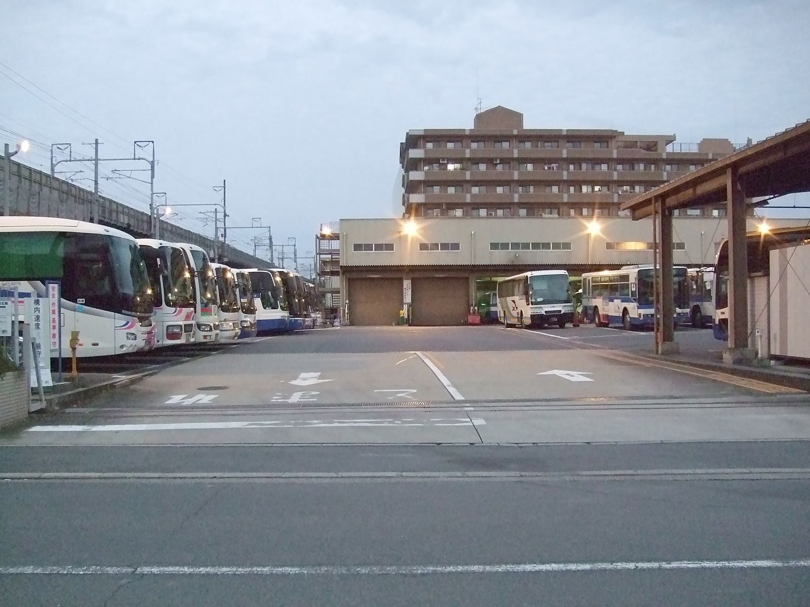 Nishinihon JR Bus Kyoto Depot, Kisshoinsannomiyacho, Minami Ward, Kyoto City, Kyoto, Japan.